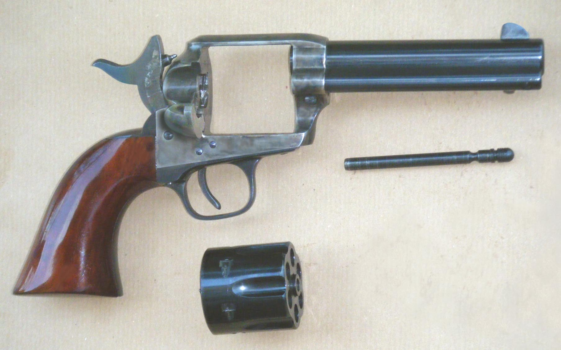 Colt disassembled (Made by Uberti)